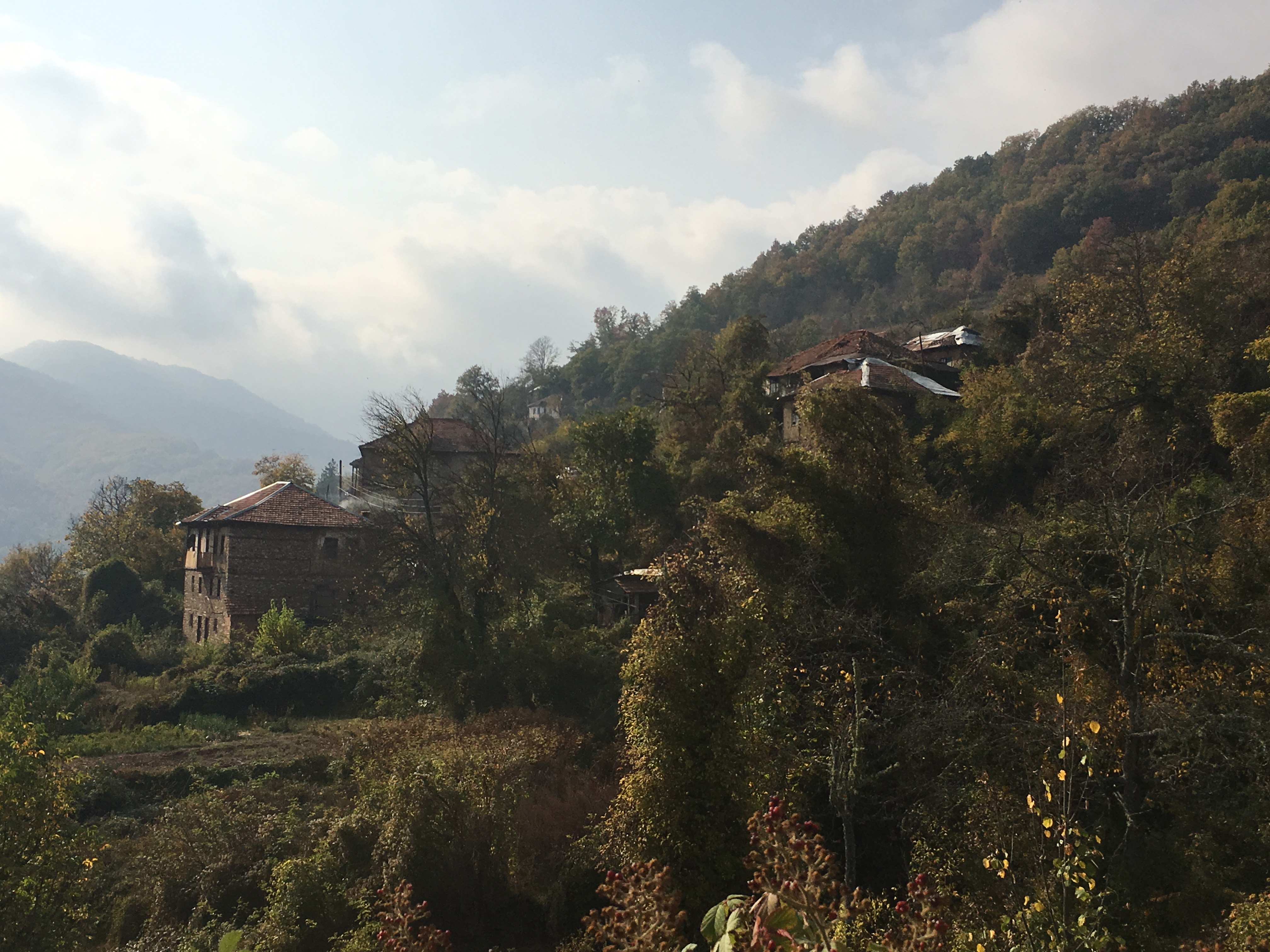 Wikiexpedition to Kopačka